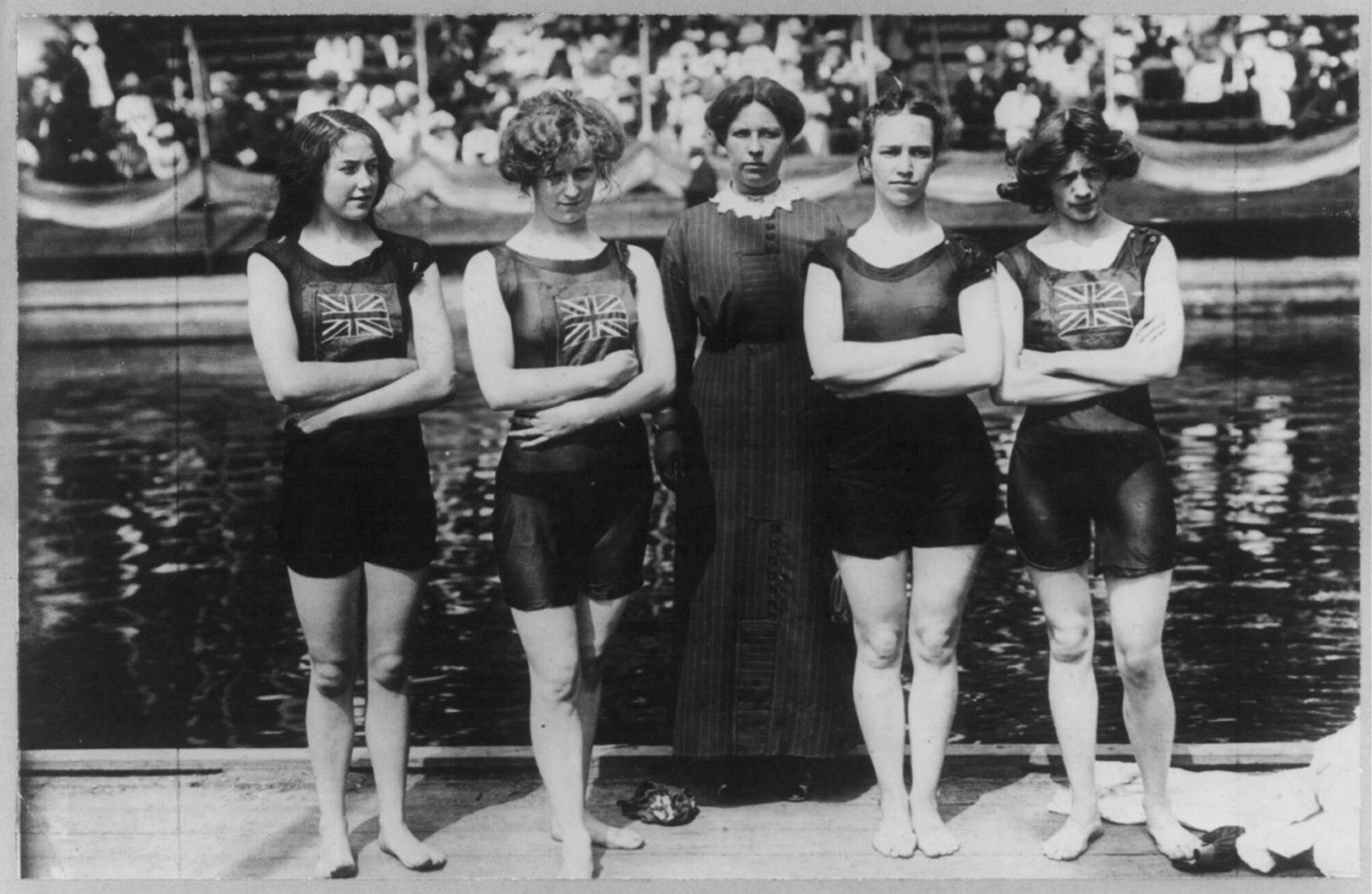 Title: British freestyle relay swim team that won the Olympic gold medal in 1912 Abstract/medium: 1 photographic print.